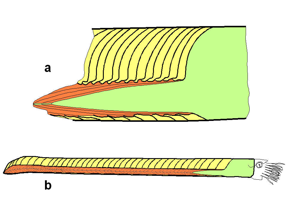 Two examples of longicone nautiloids of the order Endocerida; a) Dideroceras (schematic reproduction of a thin section of the adoral part of the shell); b) Suecoceras (reconstruction of the shell in life position). Green: living chamber and endosiphotube; orange: endocones; yellow: phragmocone chambers.